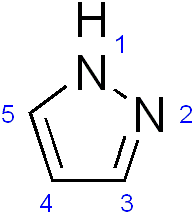 chemical structure of pyrazole